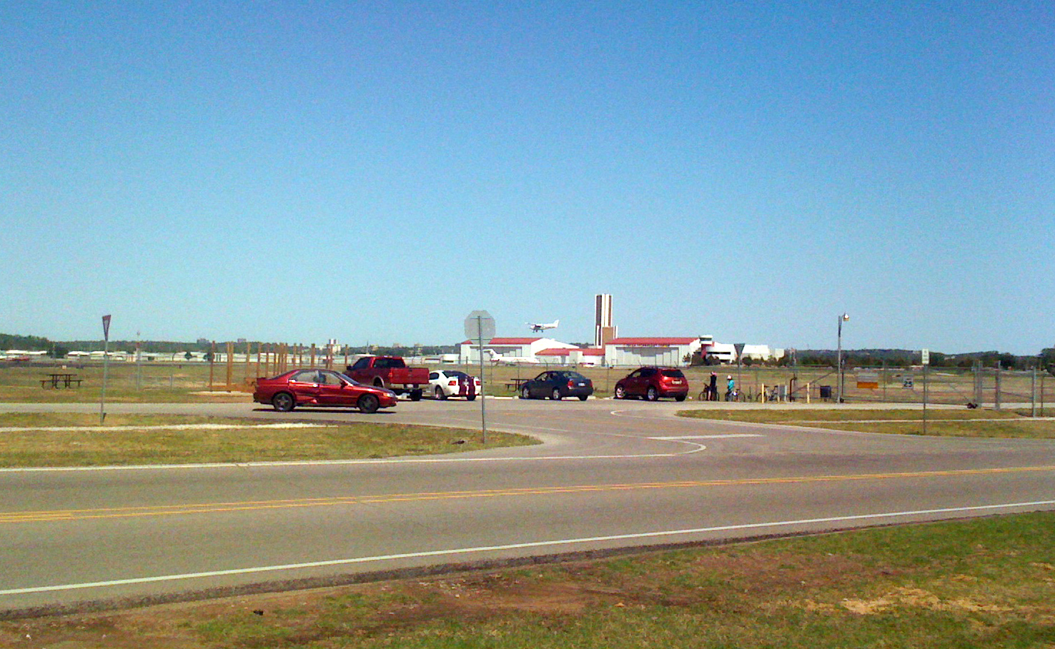 This is a photo of the observation area at Tulsa jones jr airport